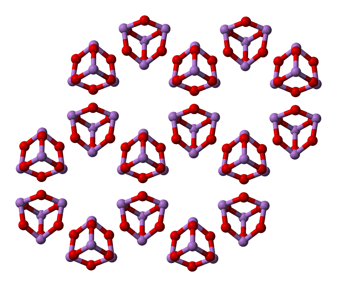 Ball-and-stick model of the packing of As4O6 molecules in the crystal structure of arsenolite, the low-temperature, cubic form of arsenic trioxide, As2O3. X-ray crystallographic data from P. Ballirano, A. Maras (2002). "Refinement of the crystal structure of arsenolite, As2O3". Z. Krist. 217: 177-178.. Model constructed in CrystalMaker 8.1. Image generated in Accelrys DS Visualizer.